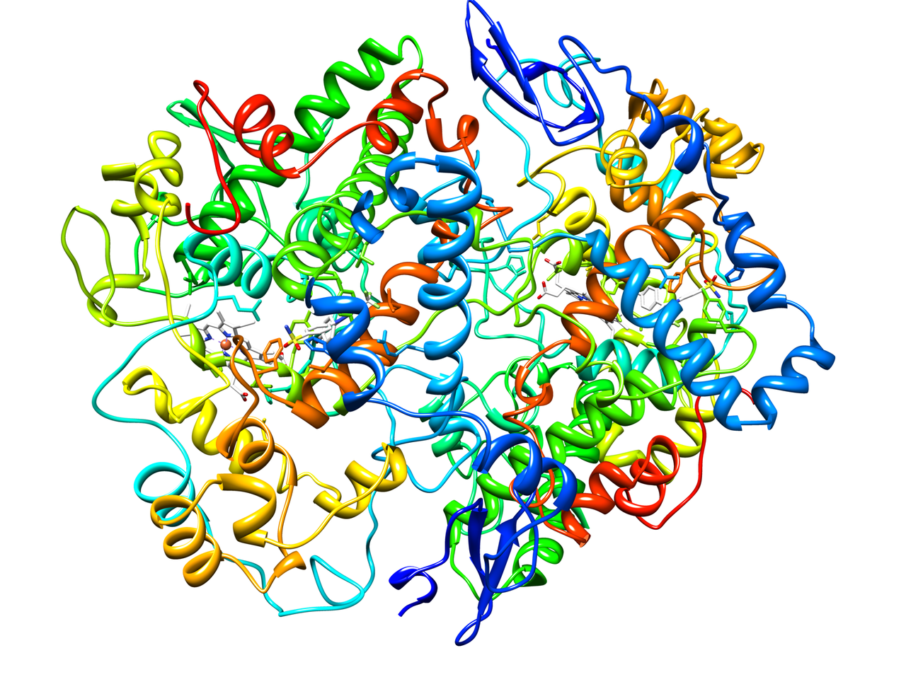 Prostaglandin Synthase-2 Complex Molecular graphics images were produced using the UCSF Chimera package from the Resource for Biocomputing, Visualization, and Informatics at the University of California, San Francisco.